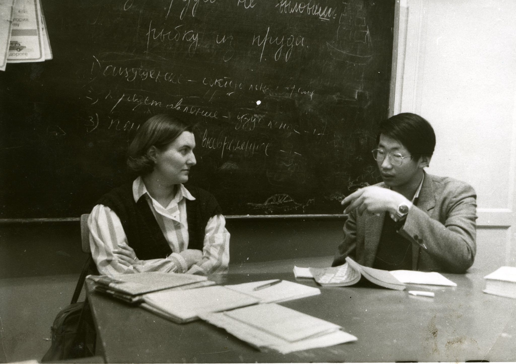 Оюутан нас